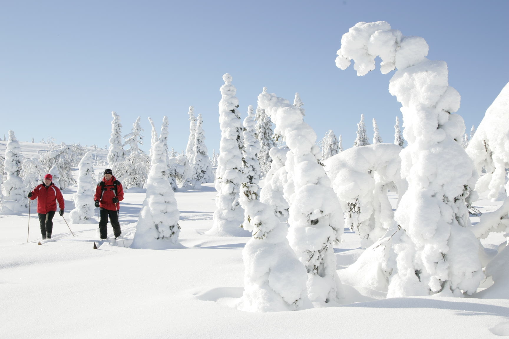 In mid winter the trees of Riisitunturi fell become covered by crown snow